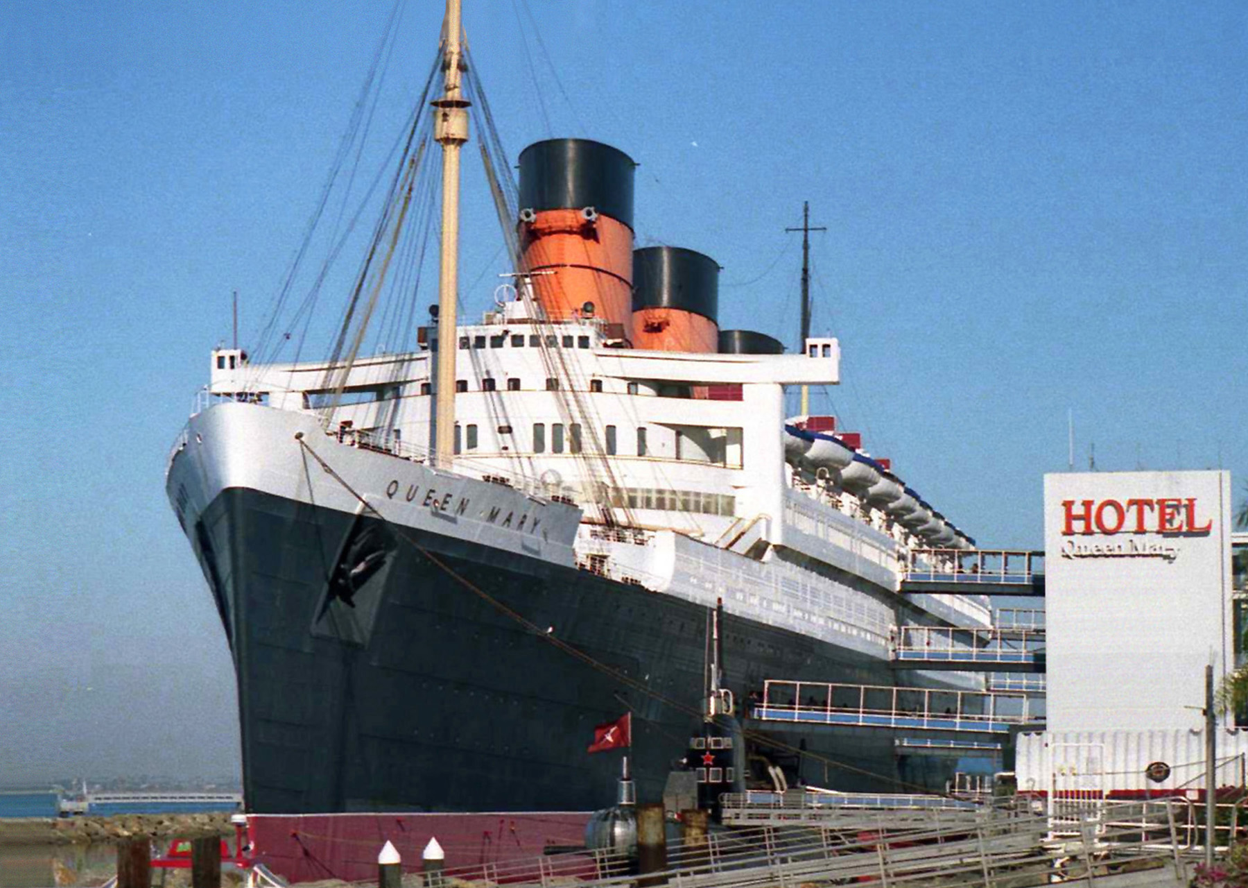 RMS Queen Mary Hotel in Long Beach, California